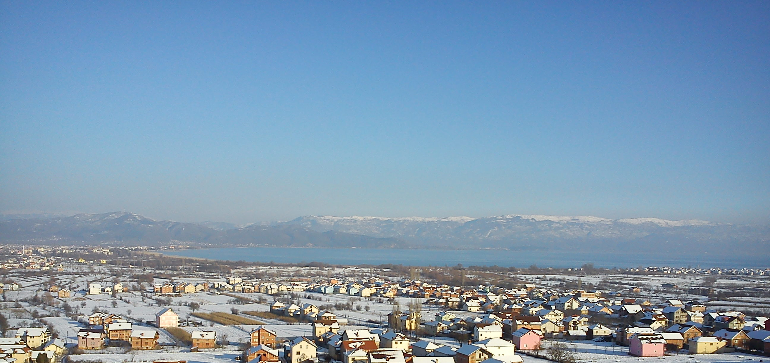 View of the village Radoilišta, Struga Municipality, Macedonia.